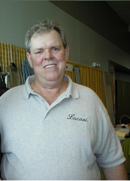 Buddy Hall Summary This is my personal photo that I took with my camera and can be released to the public domain.